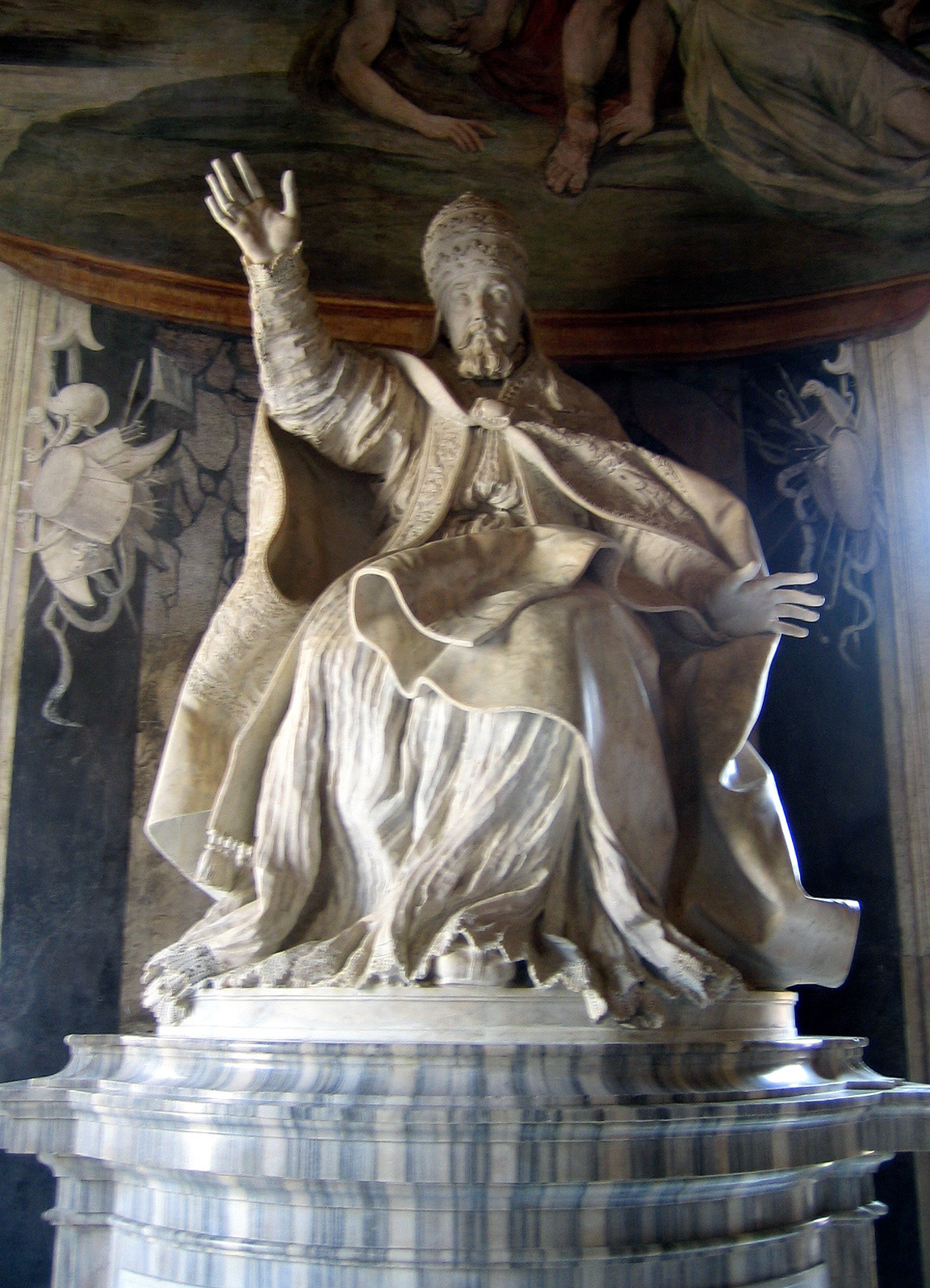 Memorial Statue of Pope Urban VIII by Gian Lorenzo Bernini